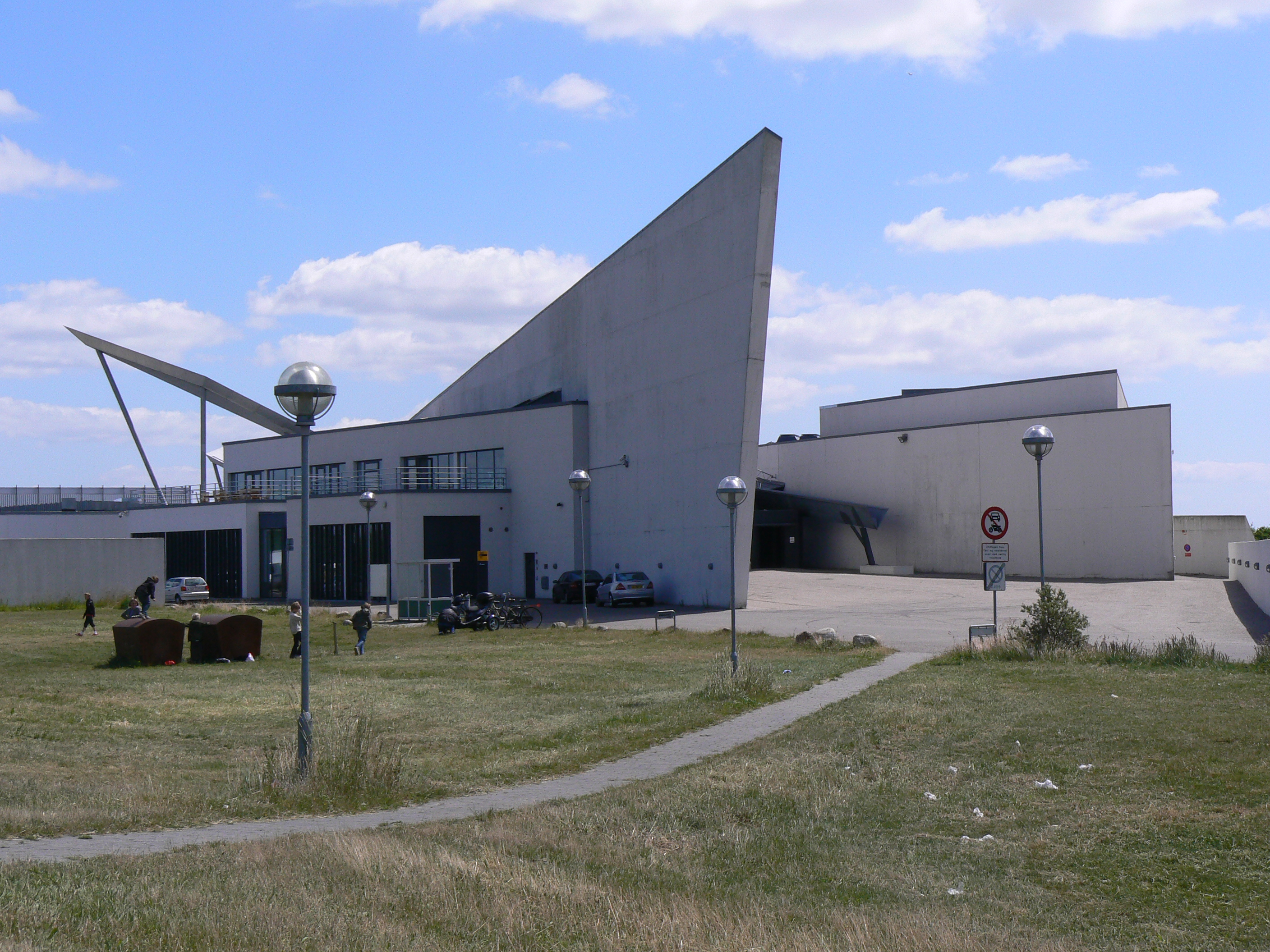 Arken Museum of Modern Art near Copenhagen in Denmark, view towards the main entrance.